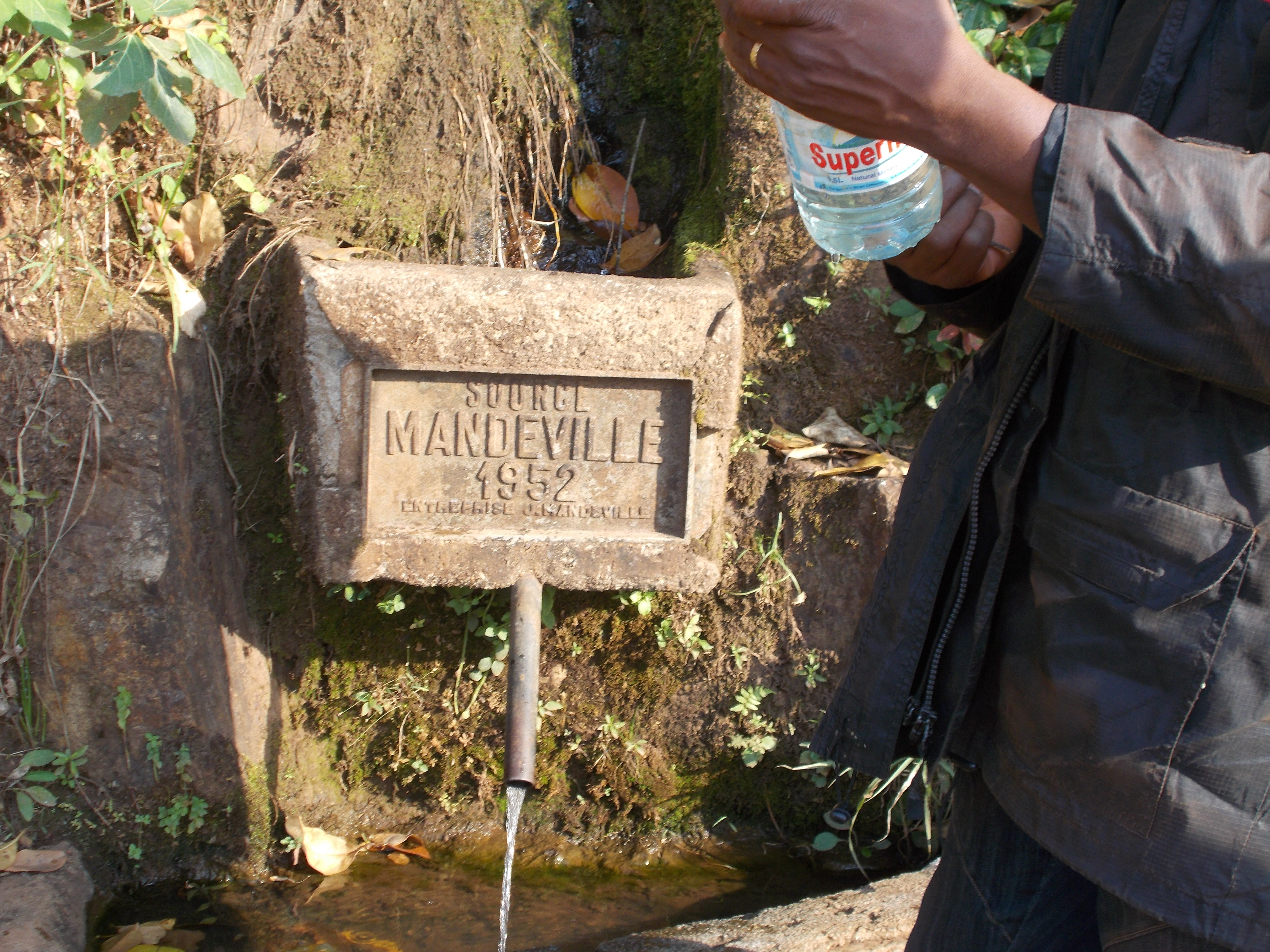 This is an image from Cameroon